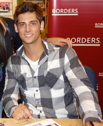 Jean-Luc Bilodeau. 16 Wishes event at Borders.